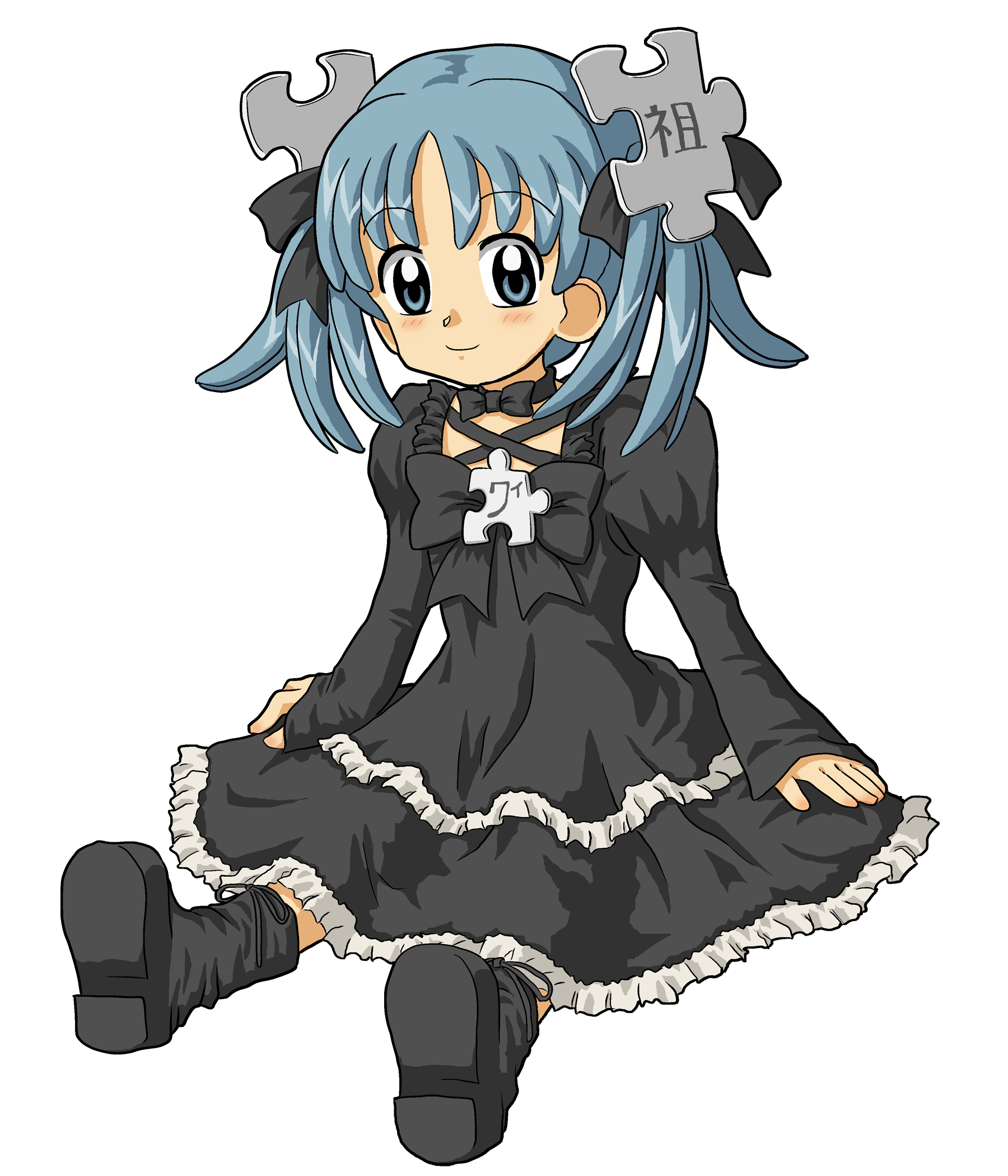 Wikipe-tan in Gothic Lolita fasion